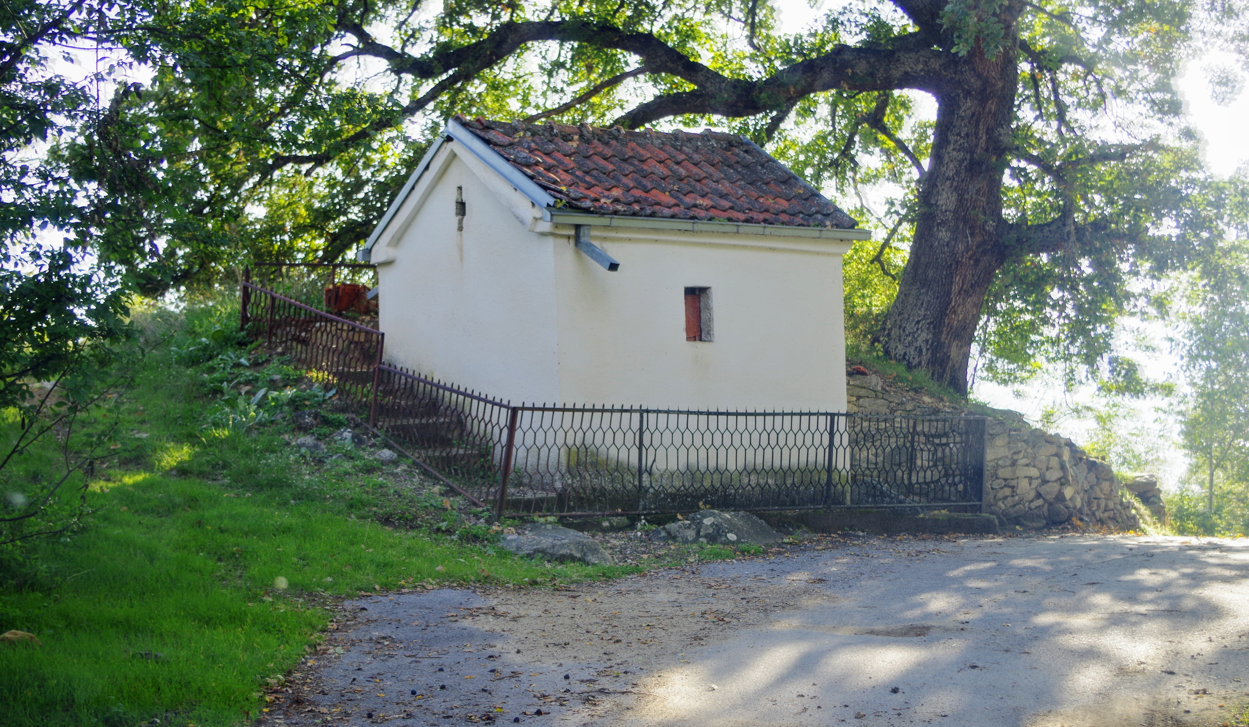 View of the Church of Theotokos in the village Štrbovo